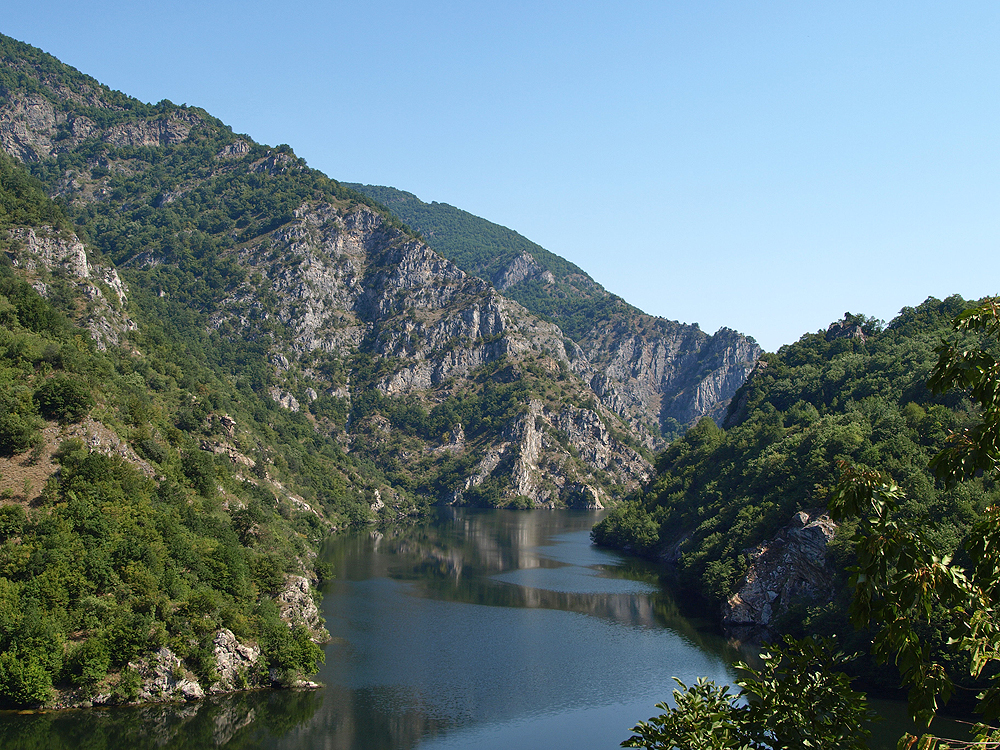 River Vacha at the upper end of Krichim Dam